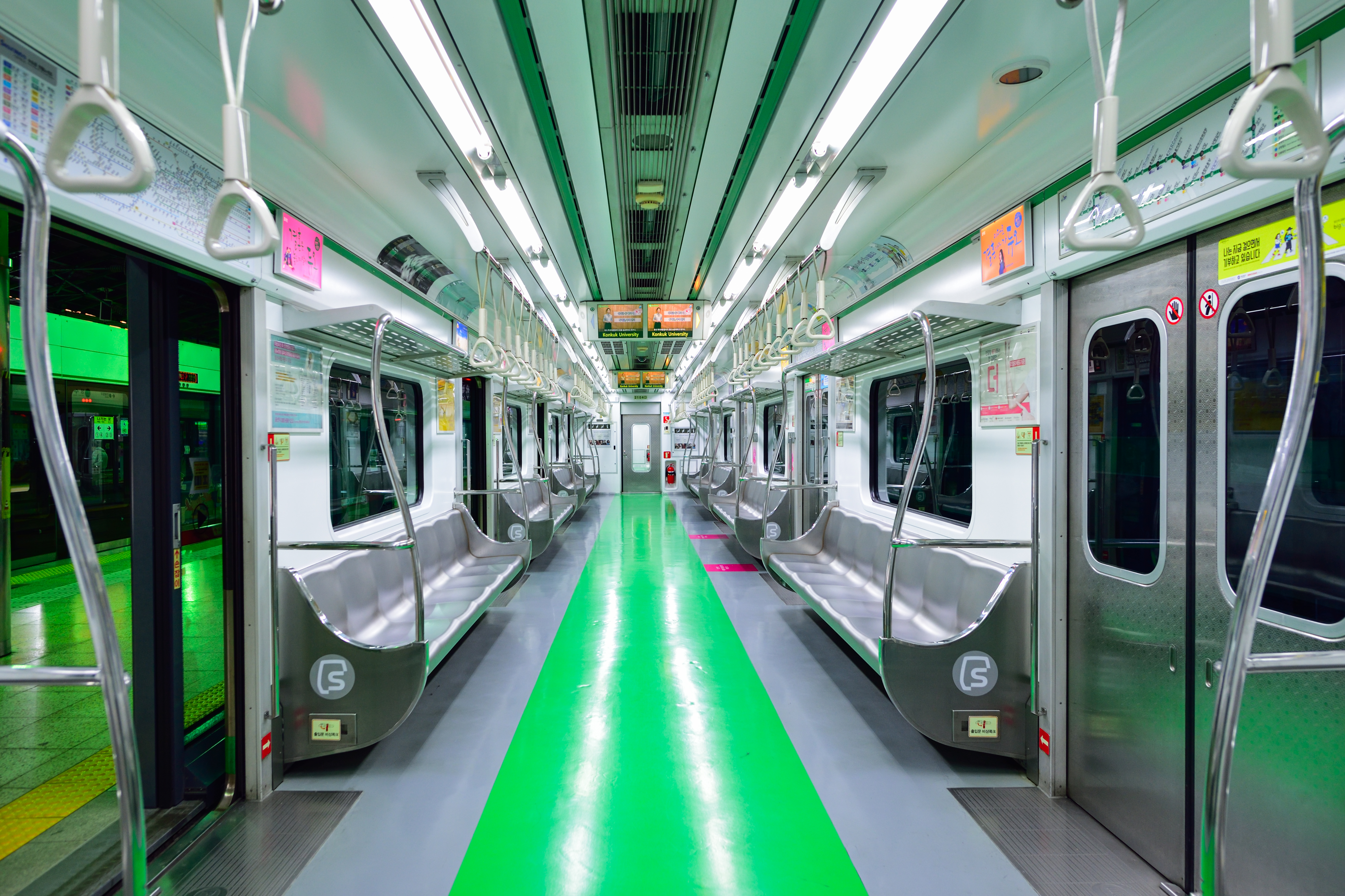 Seoul Metro Class 2000